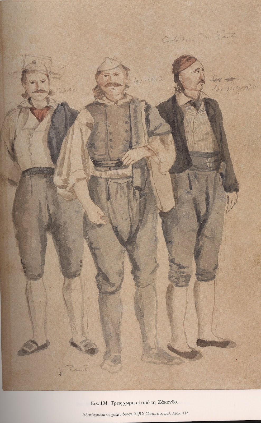 Three Zakynthian peasants